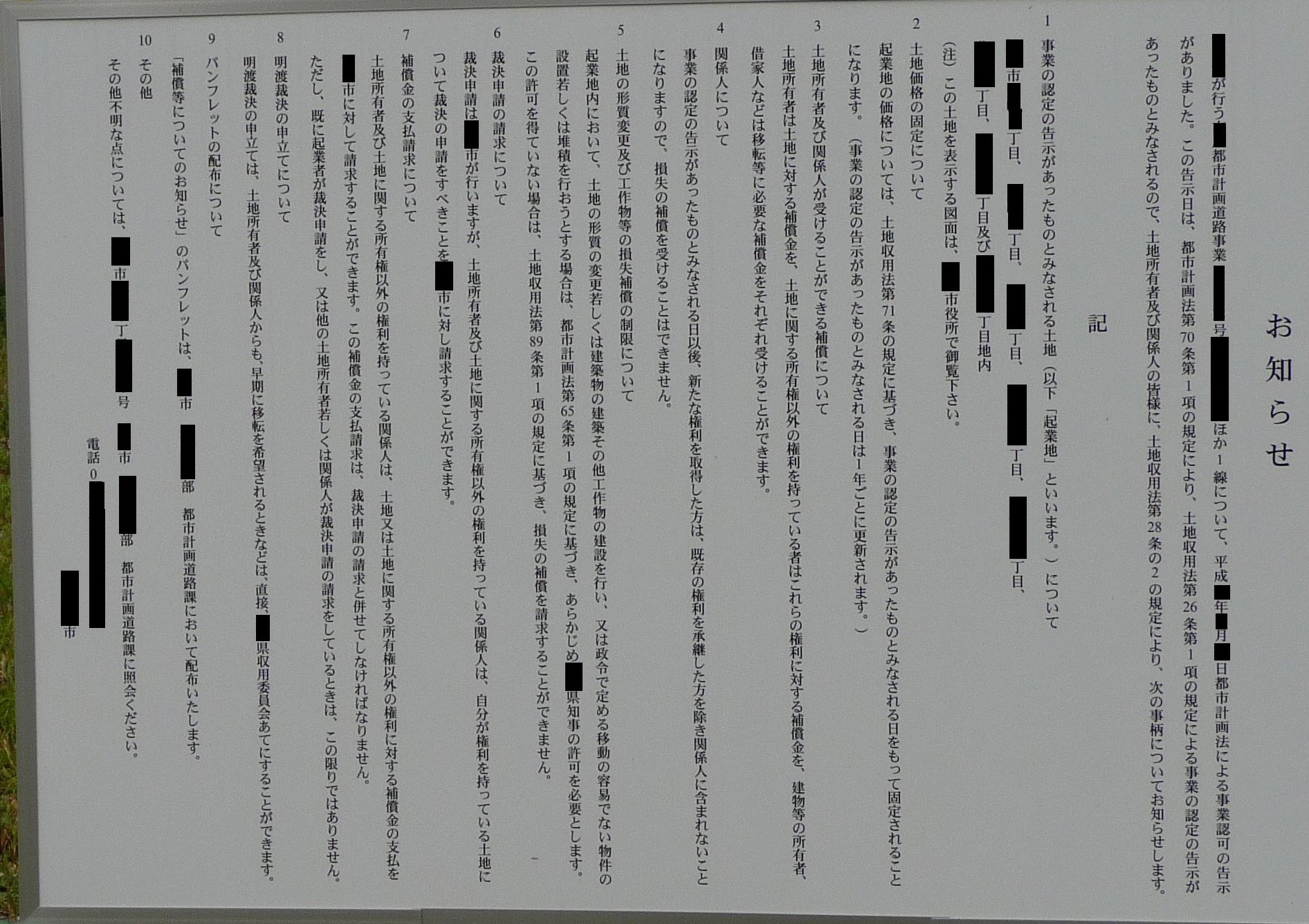 The notice based on the law from Japanese local government to the land owner for new road development, example in Japanese. (Image is partially hidden by black pasting)